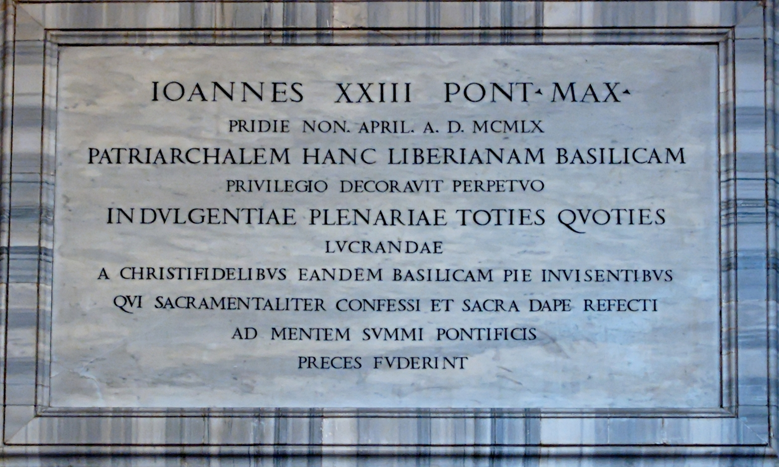 Indulgence edicted by Pope John XXIII, Basilica di Santa Maria Maggiore.